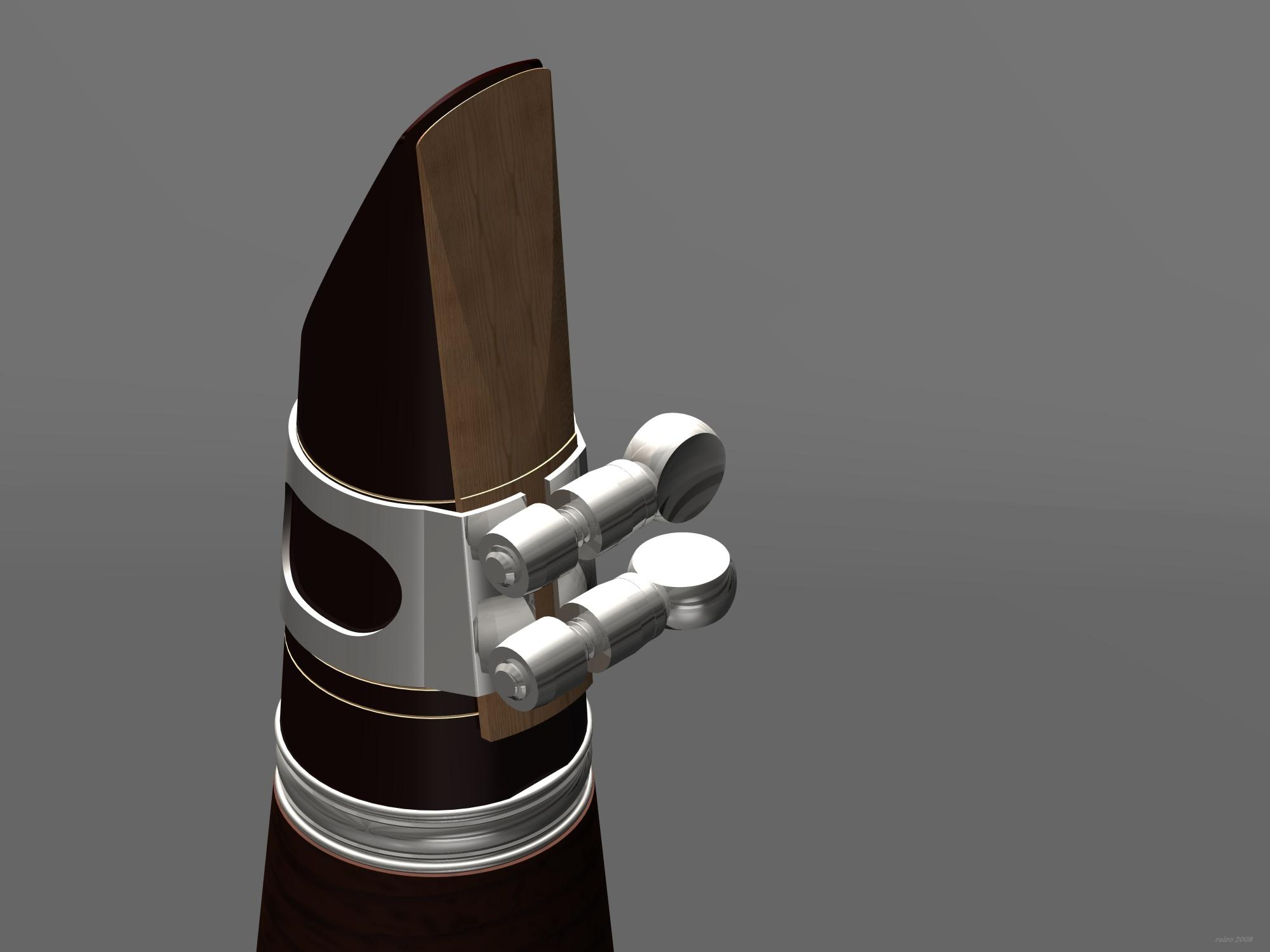 virtual picture of clariners mouth piece. 3D modeling SolidWorks